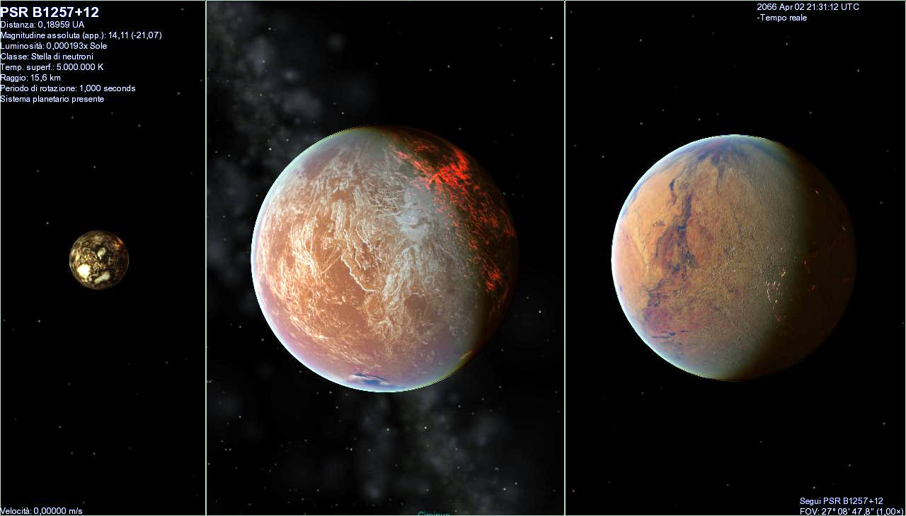 Artist’s impression of the planets of pulsar PSR B1257+12, ordered by size and orbital separation.